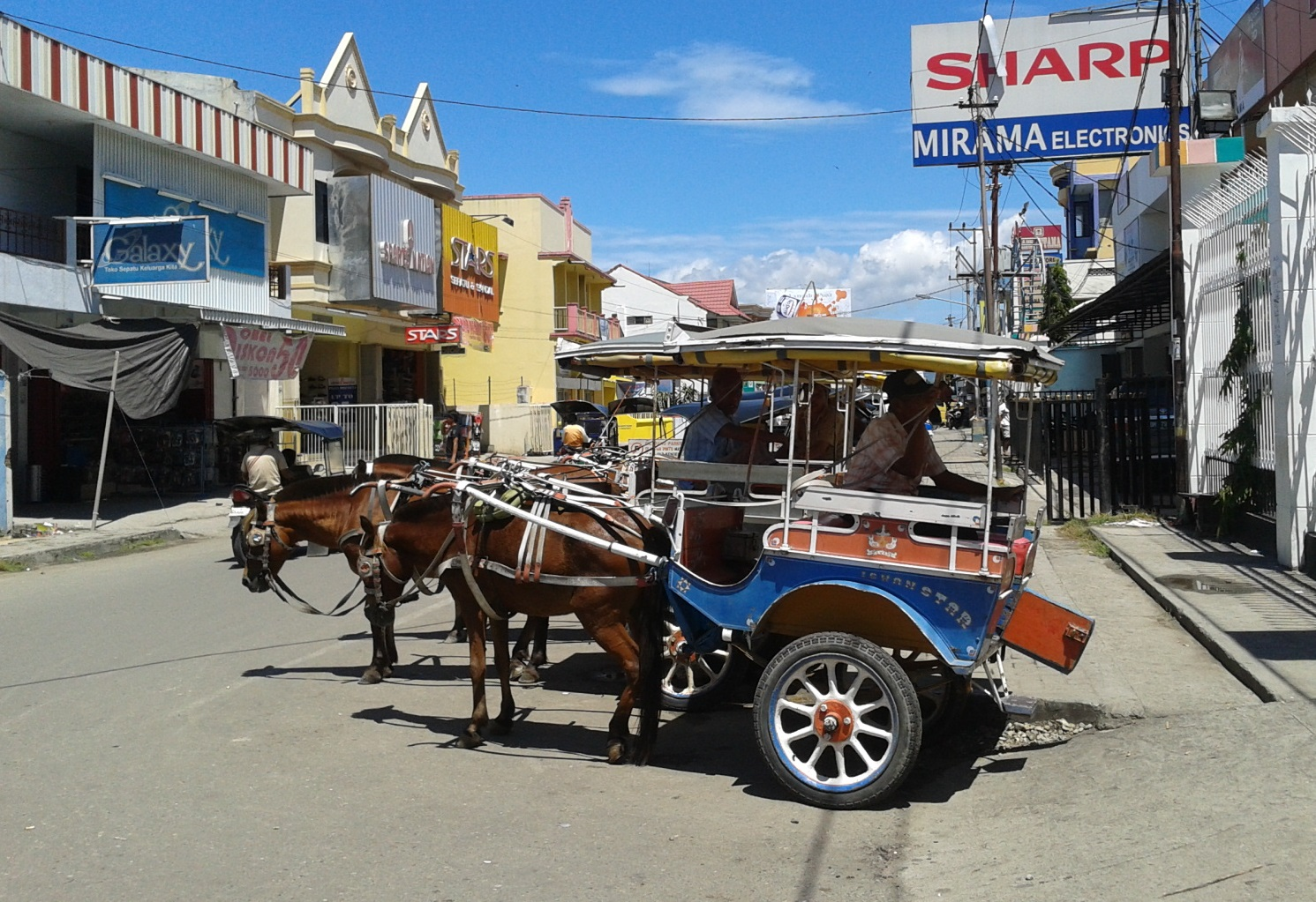 Bendi, traditional transportation in Gorontalo